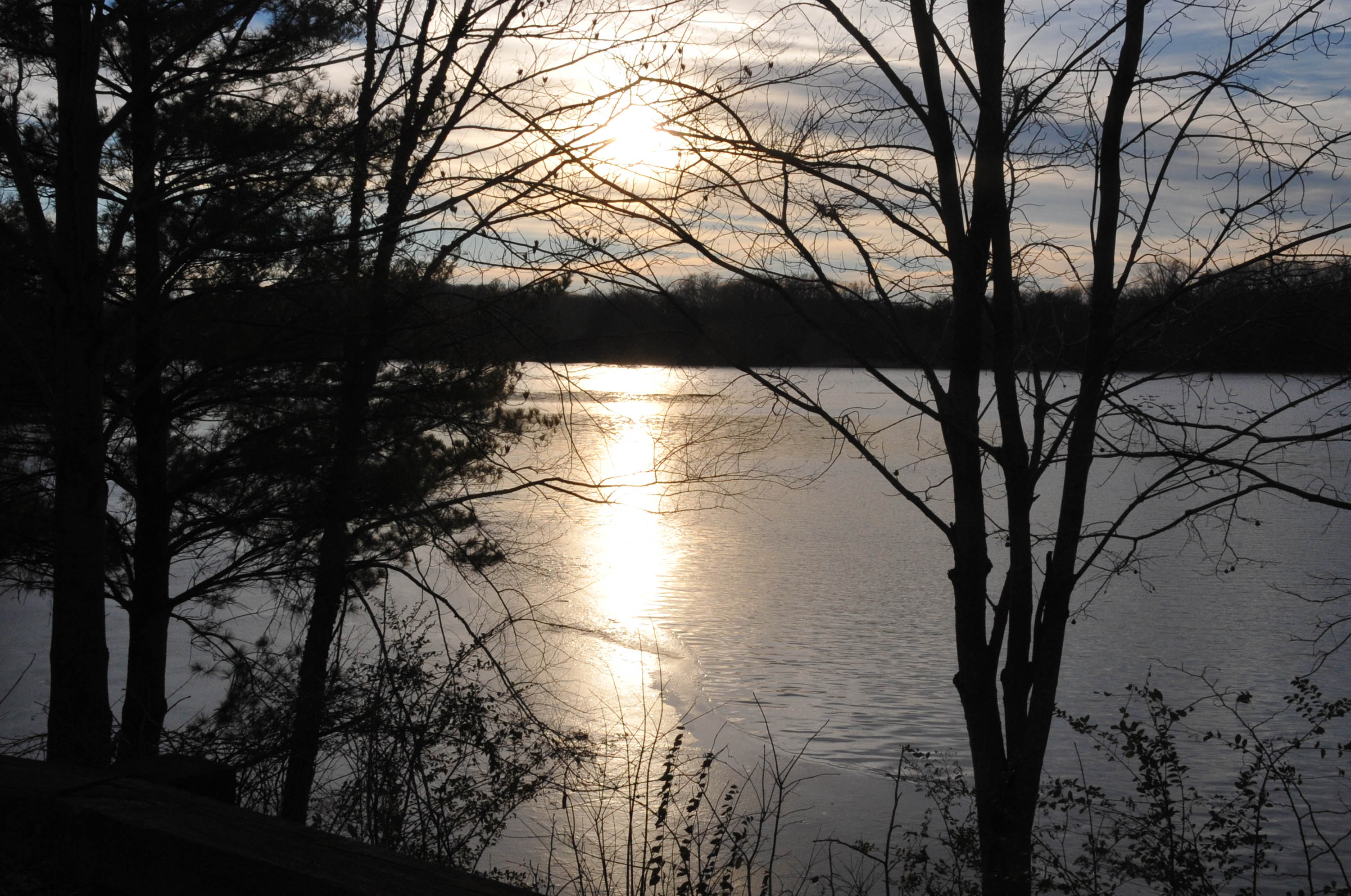 GERMANTOWN WAS ESTABLISHED IN 1718 BY SOUTHERN FAUQUIER GERMAN IRON MINERS. IT INITIALLY THRIVED BUT FAILED BY THE REVOLUTION. THE REMNANTS OF THE SETTLEMENT ARE NOW UNDER GERMANTOWN LAKE – AKA CROCKETT LAKE PARK